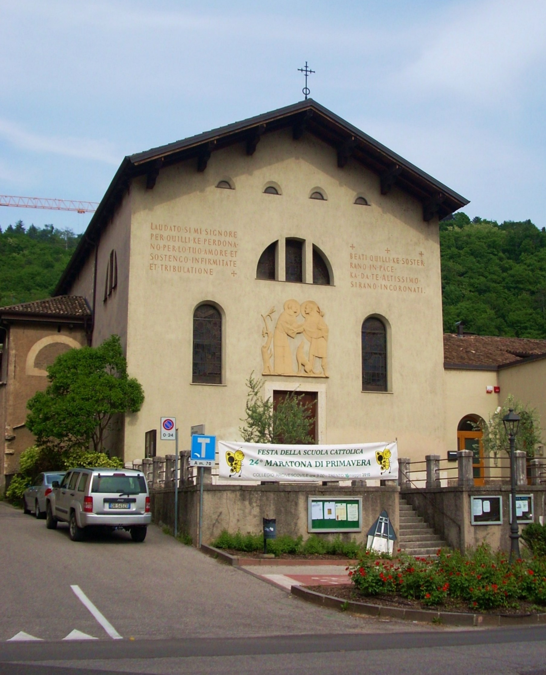 San Rocco Church, in Rovereto